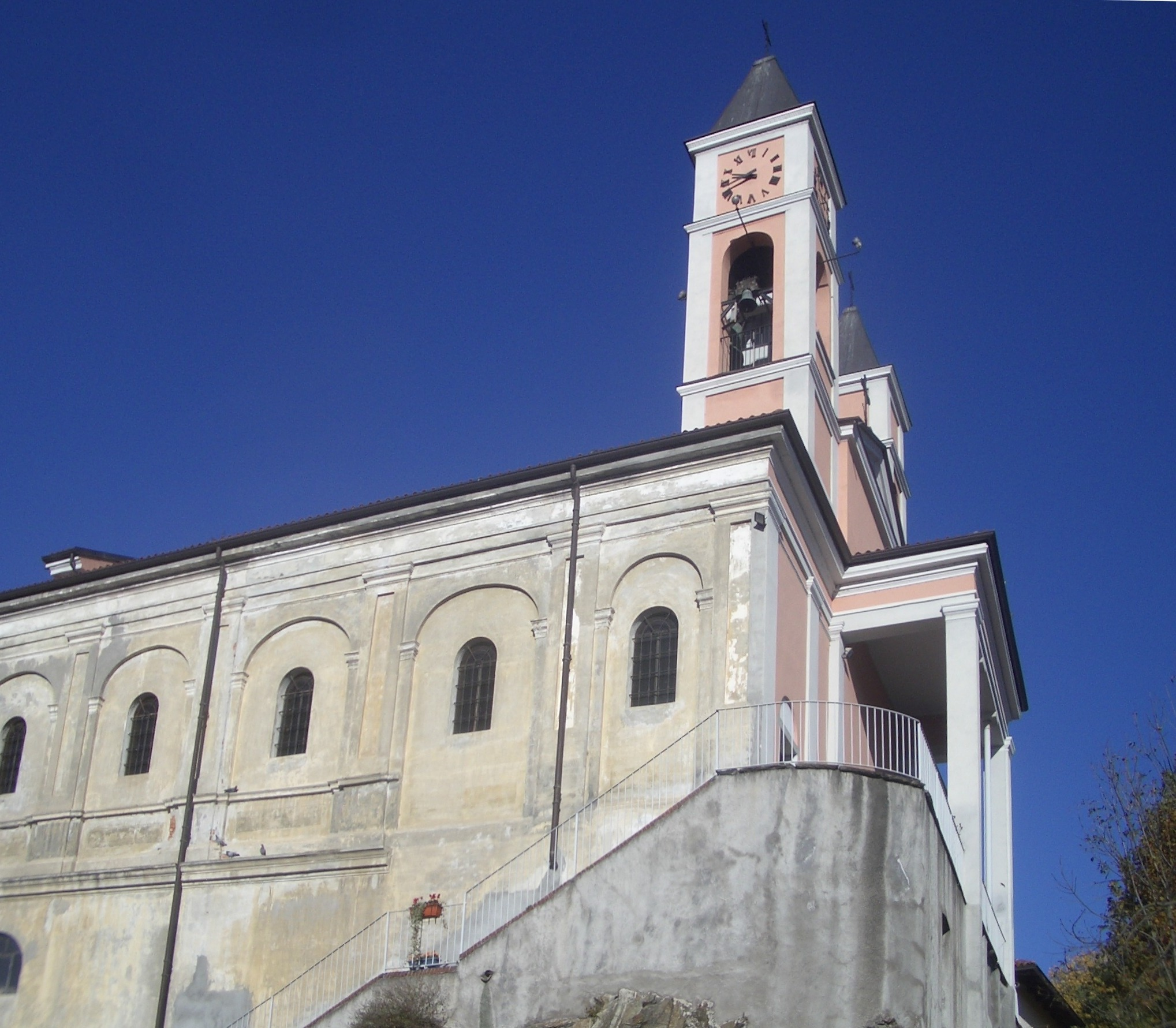 ”Parish church”, Banchette, Turin, Italy